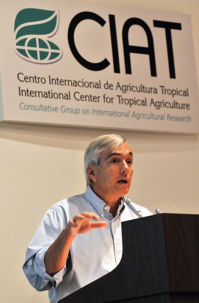 CIAT director general Ruben Echeverría opens the institution's Annual Program Review at its headquarters in Colombia